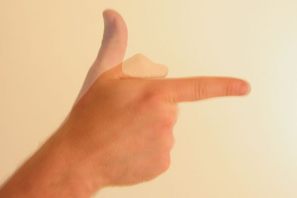 Gesture thumb up then down forefinger out like gun